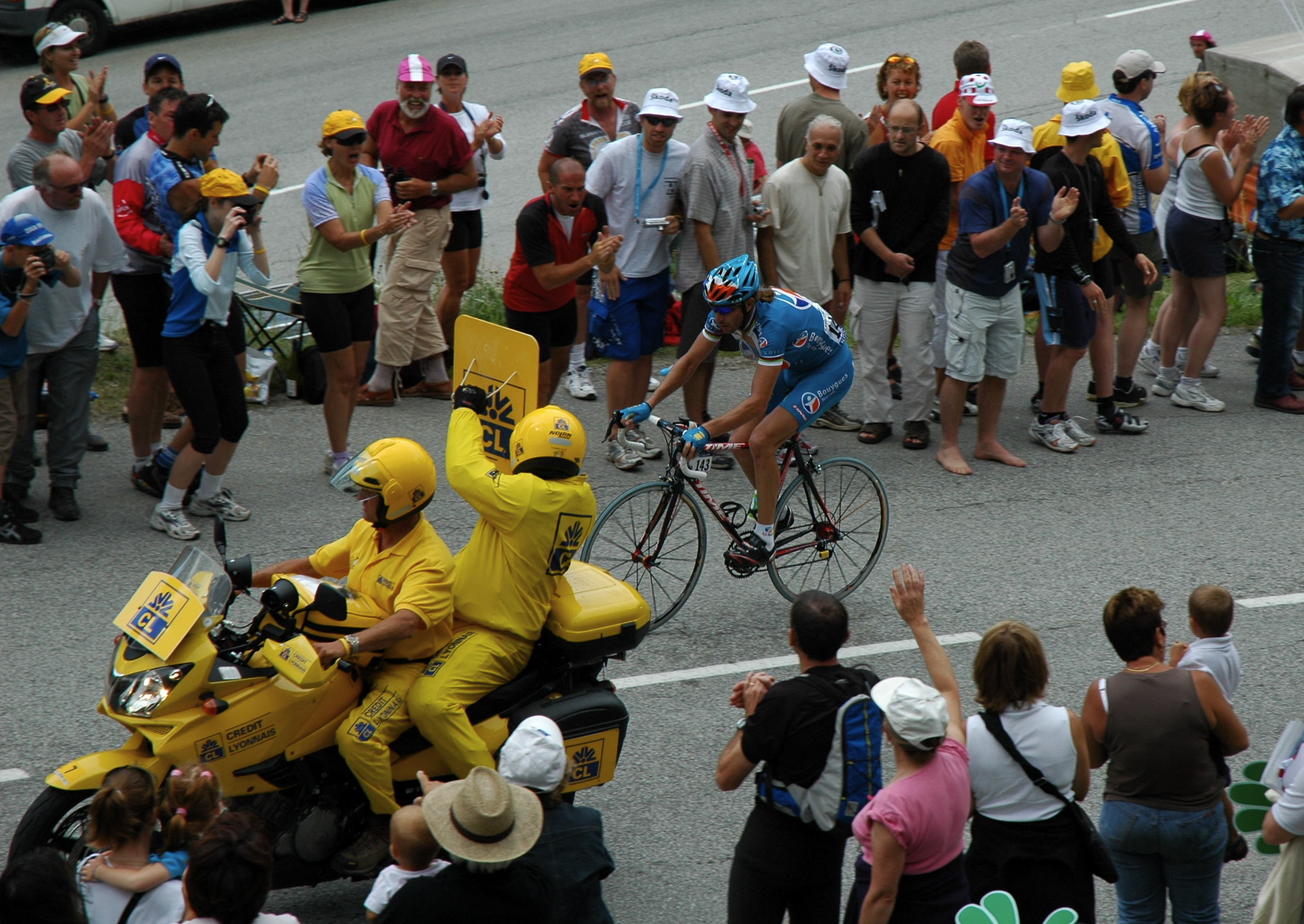 10th stage. Laurent Brochard reciving information how far the peleton is behind.